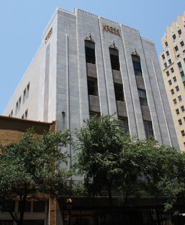 Exterior Photo of the Kress building in Fort Worth, TX.